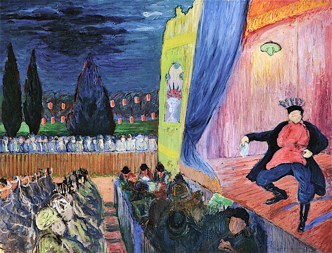 painting by Marianne von Werefkin